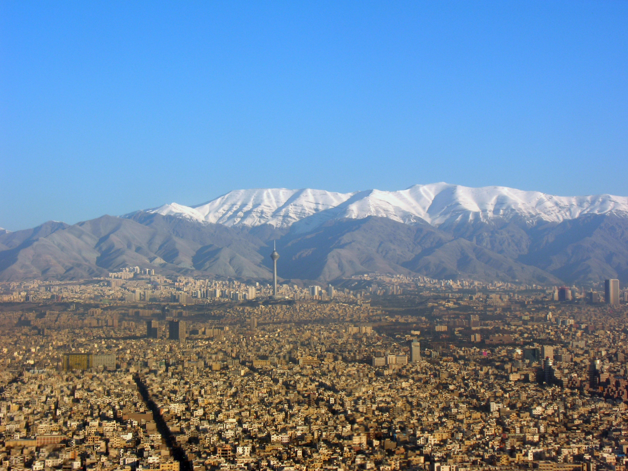 Aerial View of Tehran